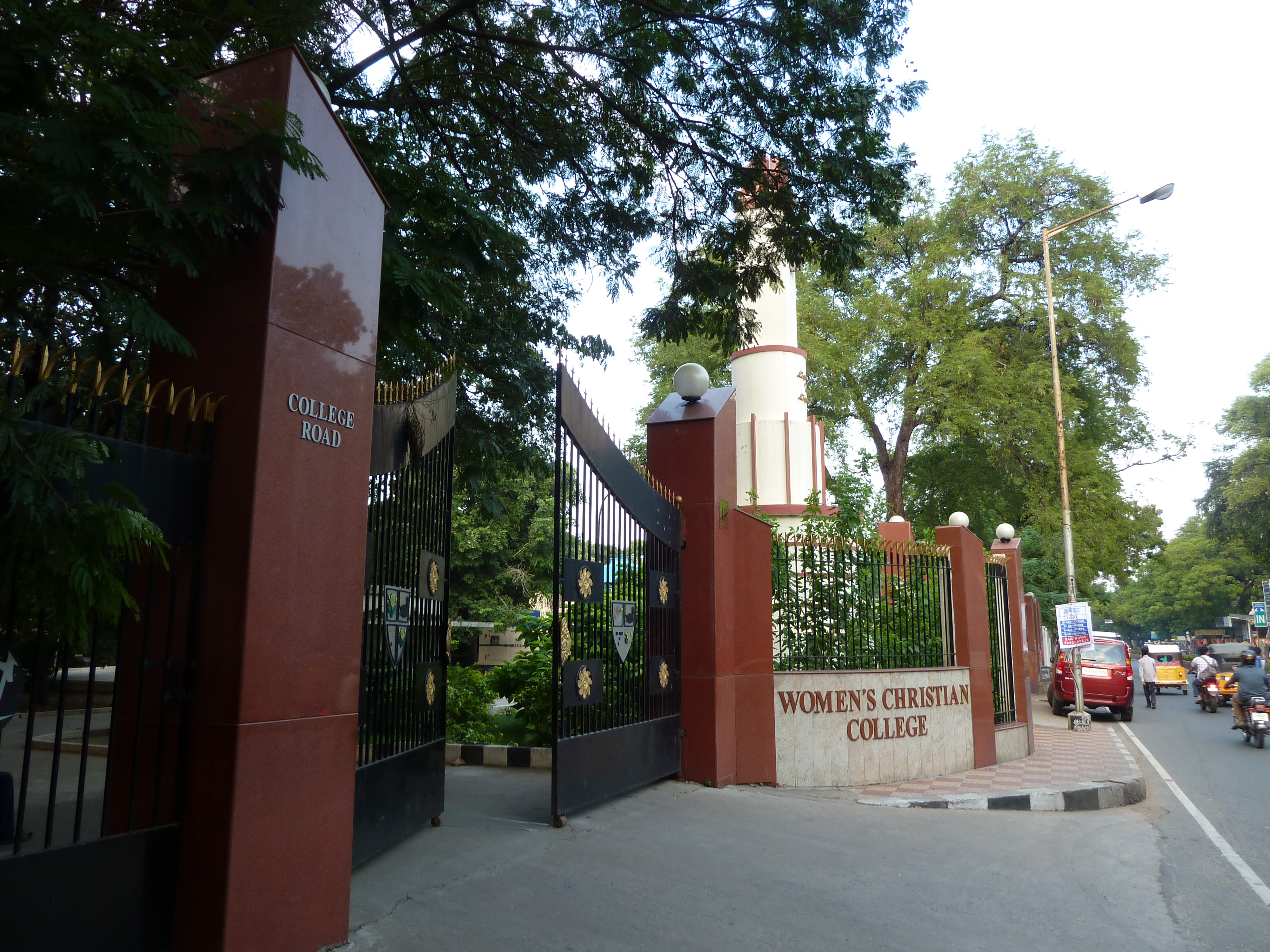 The entrance of Womens's Christian college, chennai